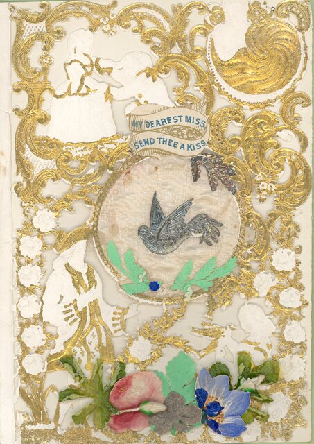 St Valentine's Day card, embossed and printed in colour, with silk panel and printed message "My Dearest Miss, I send thee a kiss", addressed to Miss Jenny Lane [or Lowe, or Love] of Crostwight Hall, Smallburgh, Norfolk, and inscribed on the reverse "Good Morrow Valentine"